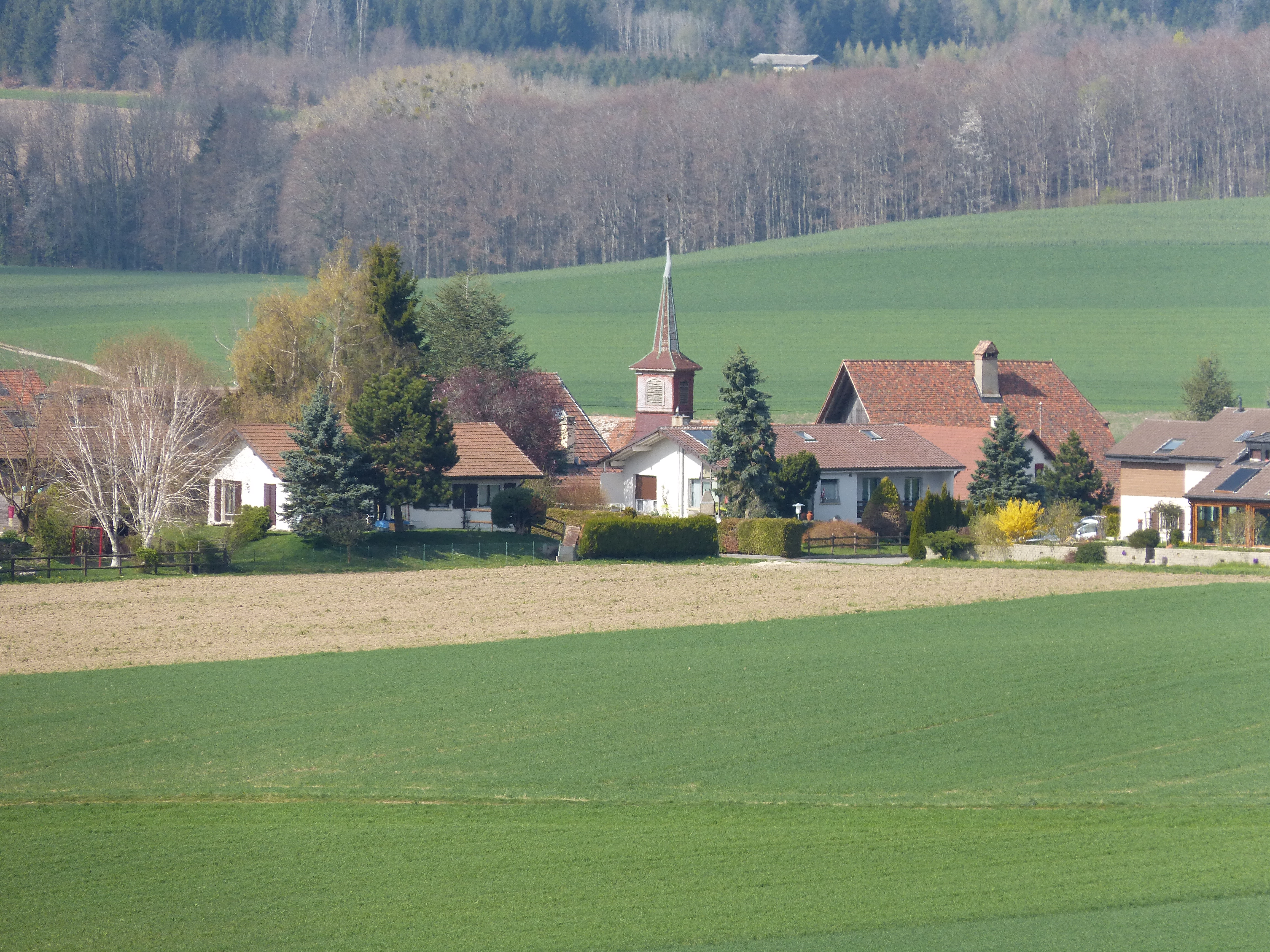 View of the village of Thierrens from the bois des brigands.